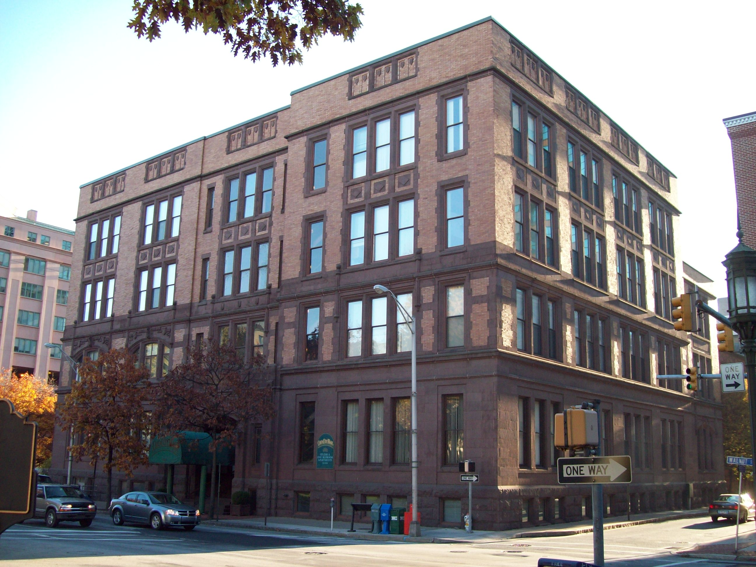 Harrisburg Technical High School, Harrisburg, Pennsylvania, November 2010